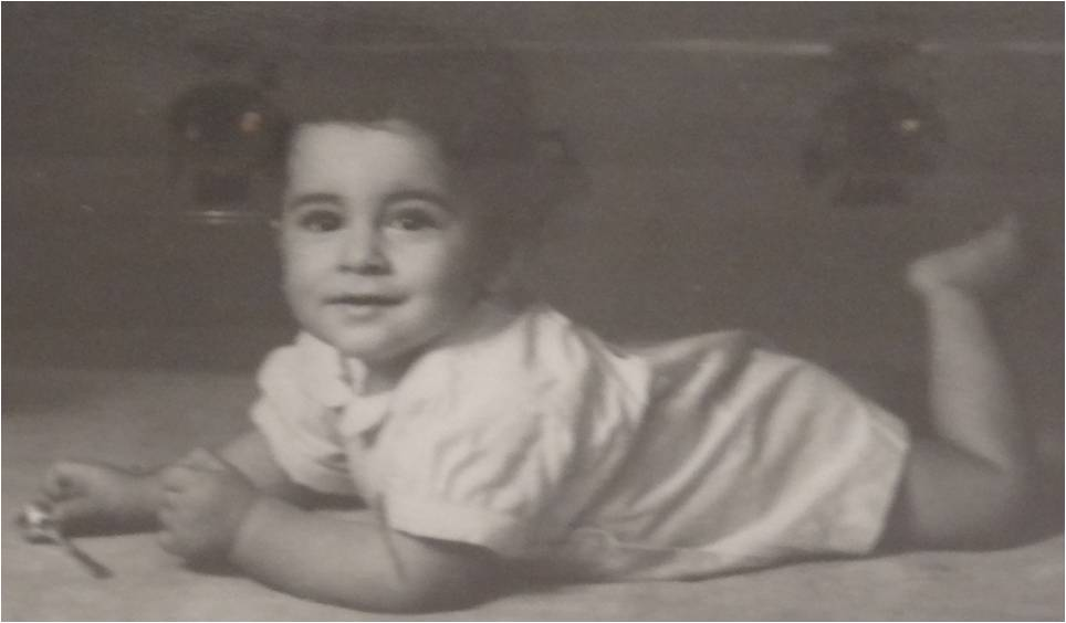 Rajiv Gandhi as an infant